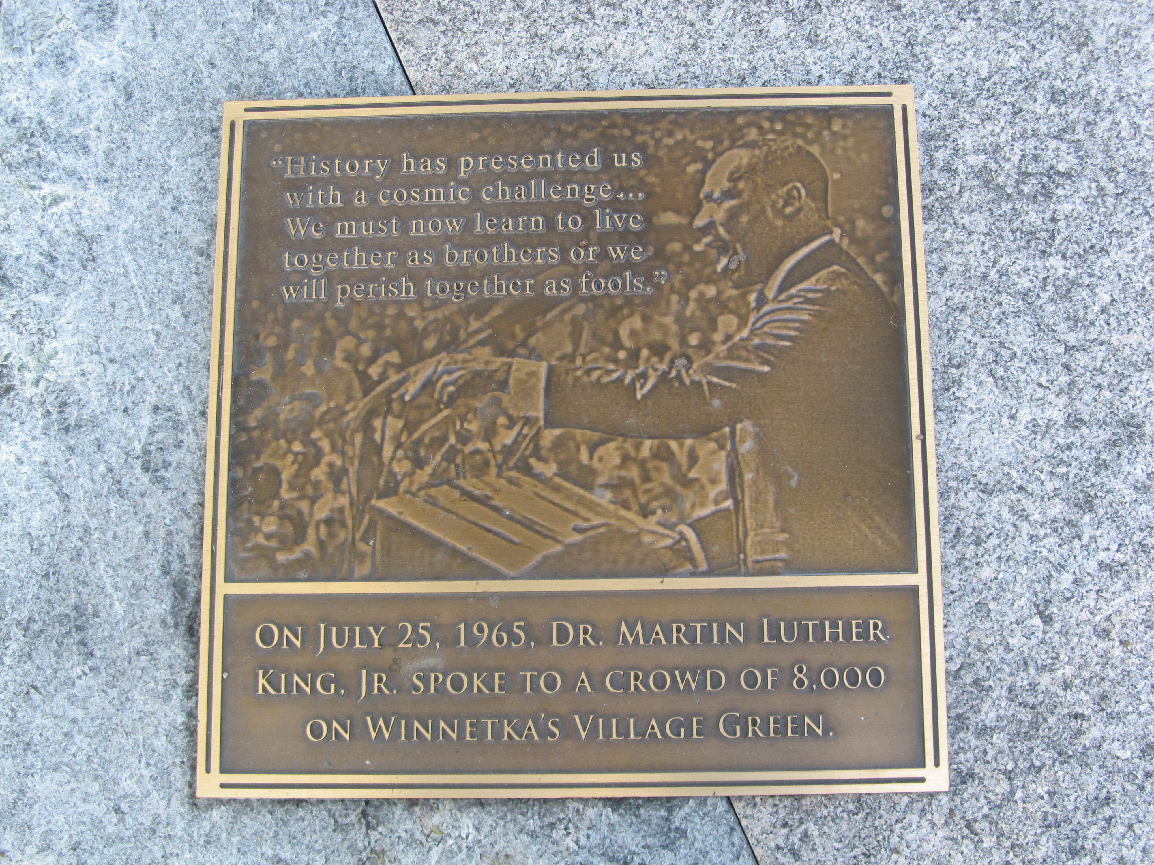 Winnetka Village Green Dr. Martin Luther King Jr. Visit Plaque